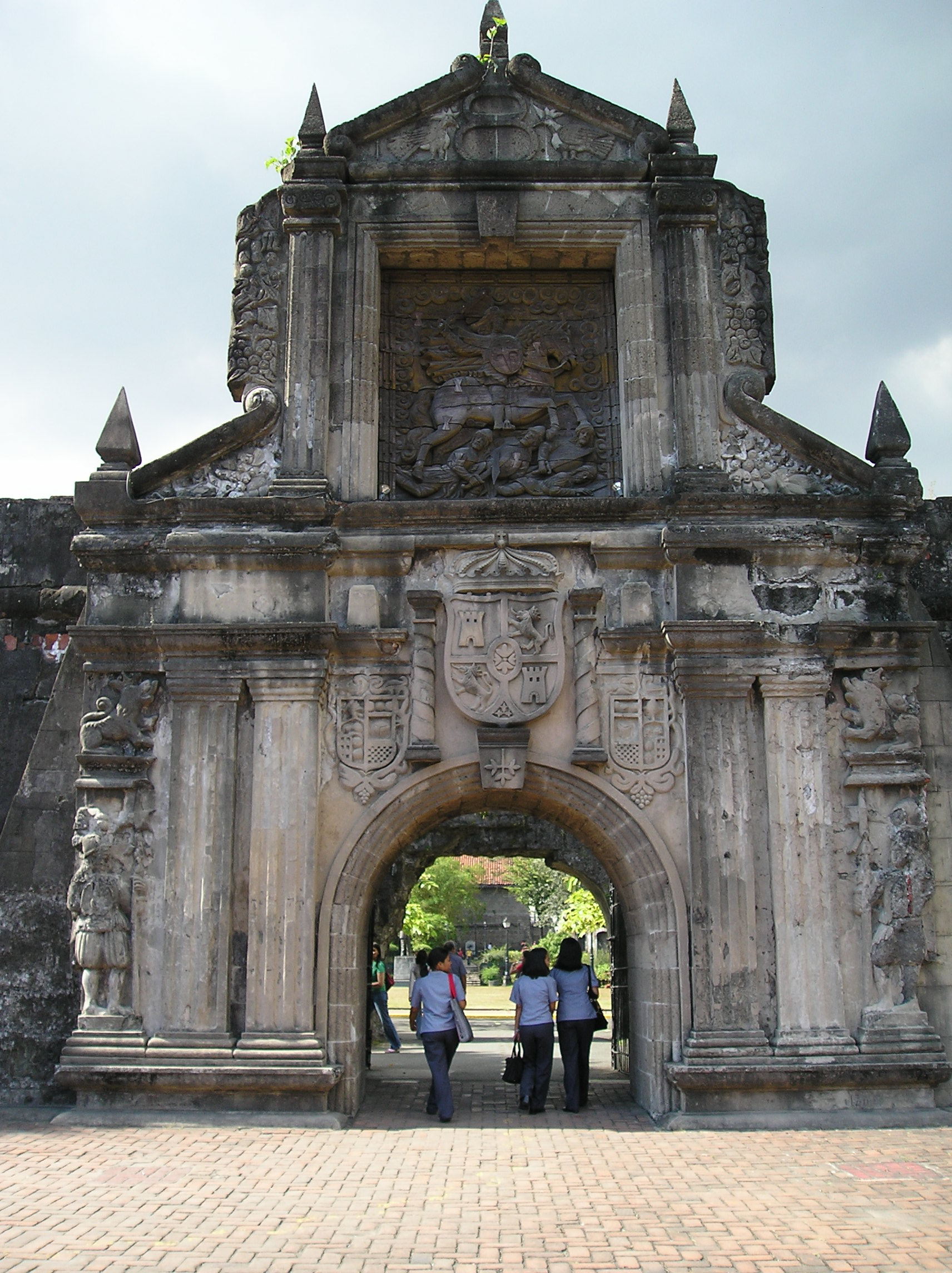 Gate of Fort Santiago, in Manila, the Philippines. Gate was built in 1714, rebuilt after WW II damage.